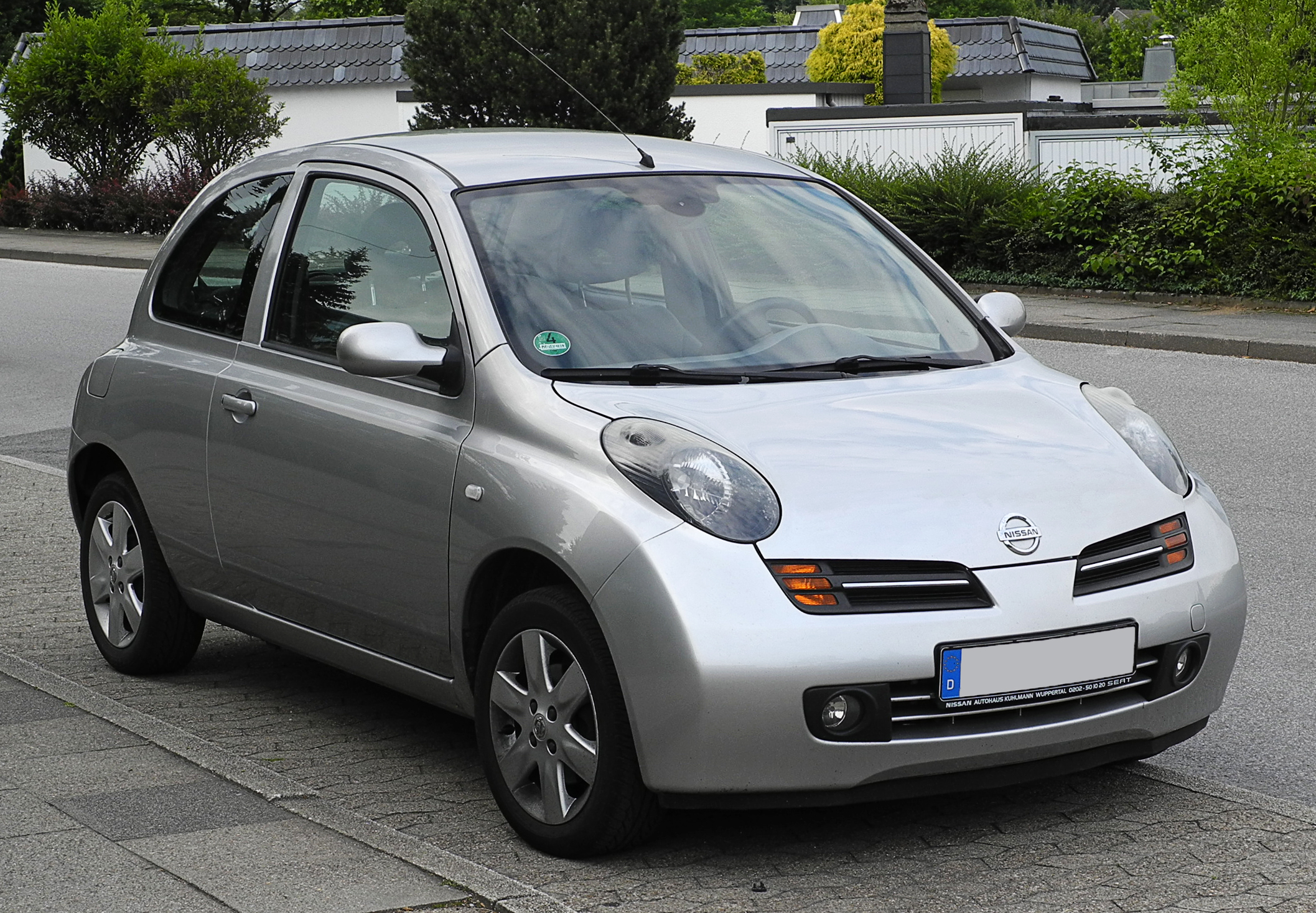 Nissan Micra 1st edition (K12)